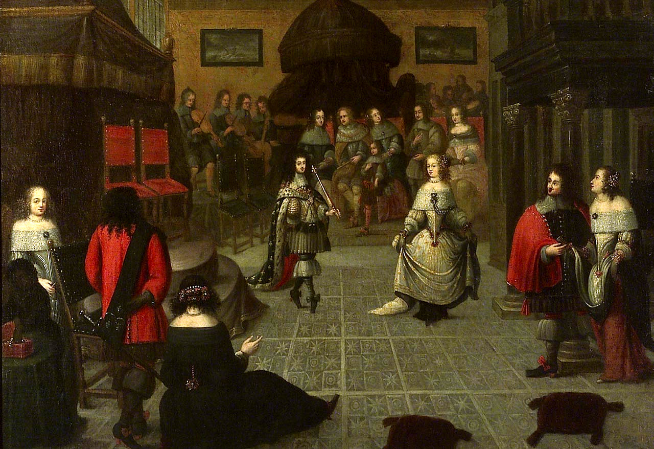 Little is known about this painting, or the artist. It has traditionally been ascribed to Gonzales Coques and was believed to show Charles II dancing at The Hague in 1660, perhaps with his niece Elizabeth van de Paltz. They were at a reception at the Stadtholder's court on the occasion of his restoration as King of England. Against this it must be said that the resemblance of the principal figure to Charles II is not convincing, and as he wears both a cloak emblazoned with fleur-de-lys and the collar and emblem of the Order of the Golden Fleece, it may equally be a portrait of Louis XIV dancing in a Dutch interior setting on some other occasion. There are several other interpretations of this subject documenting Charles II's last days of exile before his departure for England. The painting is in the style of 17th-century Dutch work, with a typically enclosed interior. Materials: oil on canvas Measurements: painting: 838 x 1194 mm